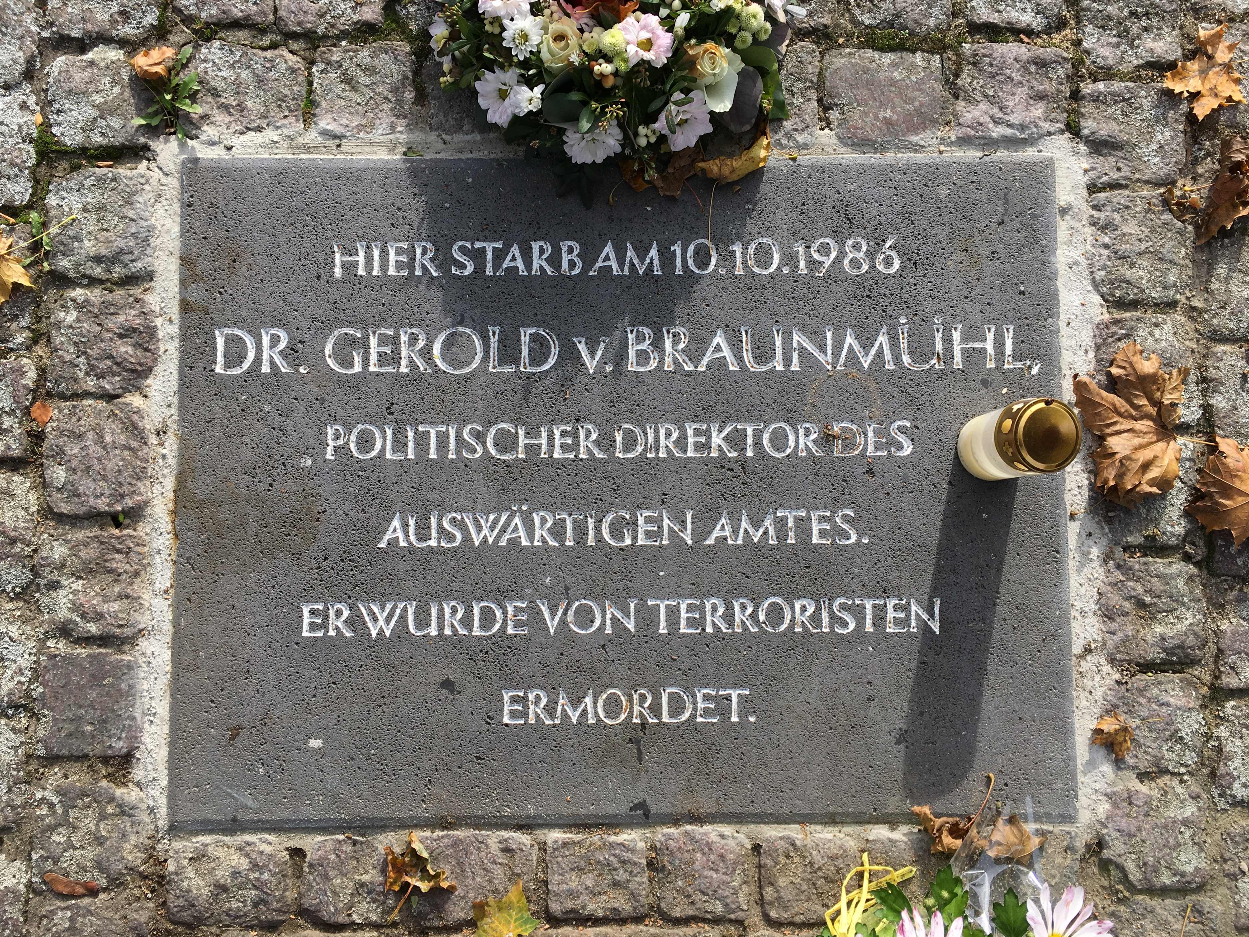 Bonn-Ippendorf, Buchholzstraße 39: Memorial plate in honor of the diplomat Gerold von Braunmühl, who was murdered there in 1986.